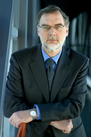 The rector magnificus of Tampere University of Technology, professor Jarl-Thure Eriksson